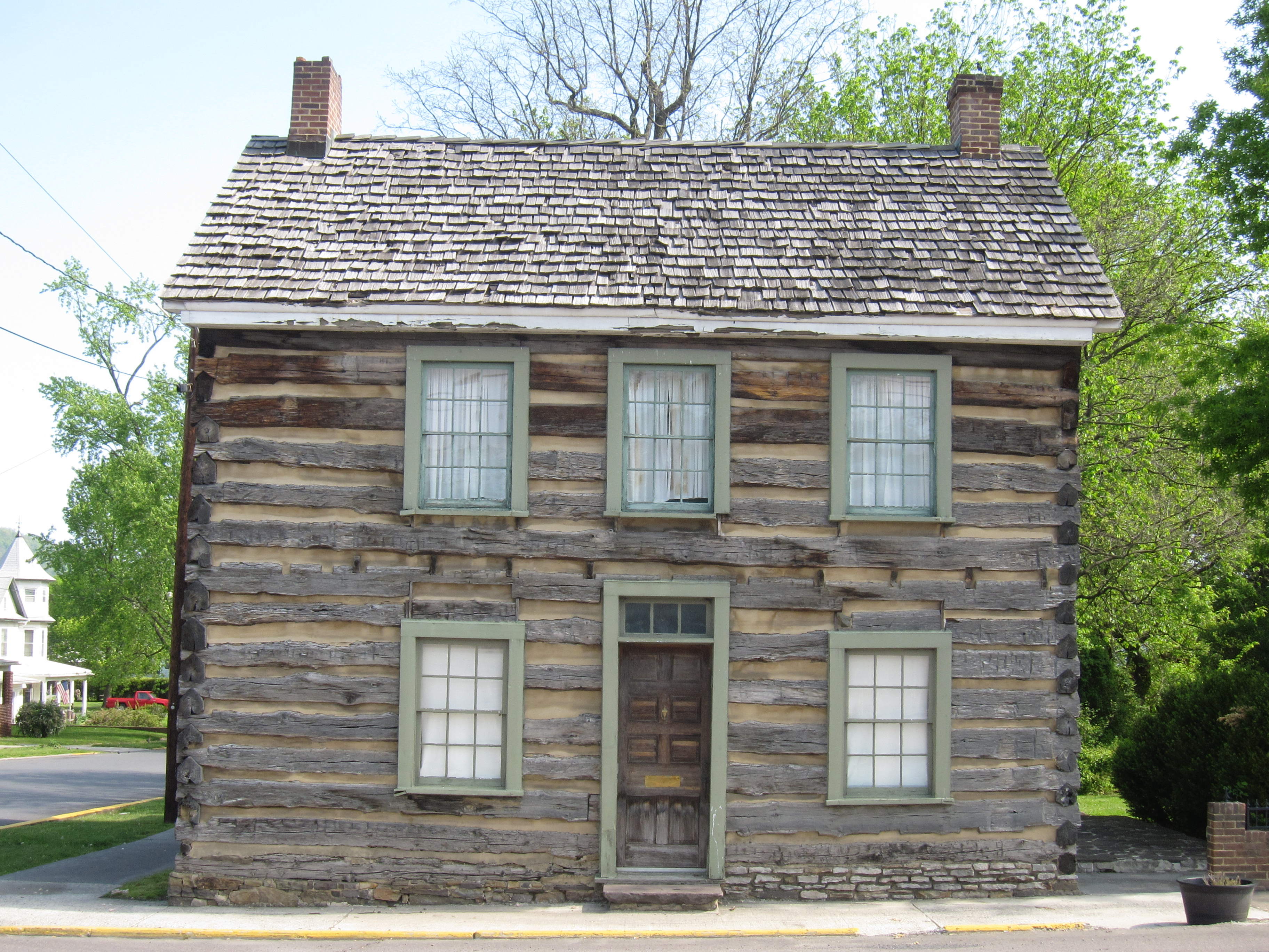 The Davis History House is an early 19th-century log cabin in Romney, West Virginia, United States. The Davis History House is located at the corner of West Main and North Bolton Streets and is currently maintained as a museum by the Hampshire County Public Library.